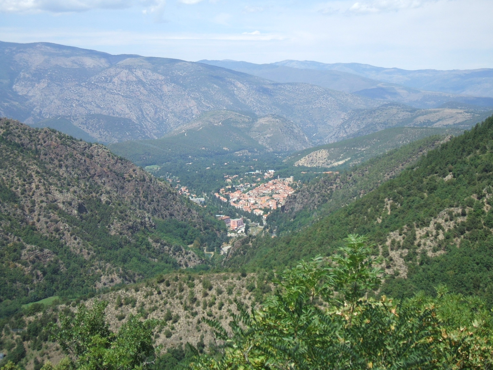 Vernet-les-Bains (département of Pyrénées-Orientales, Languedoc-Roussillon région, France) : southern view from the Saint-Martin du Canigou abbey access road